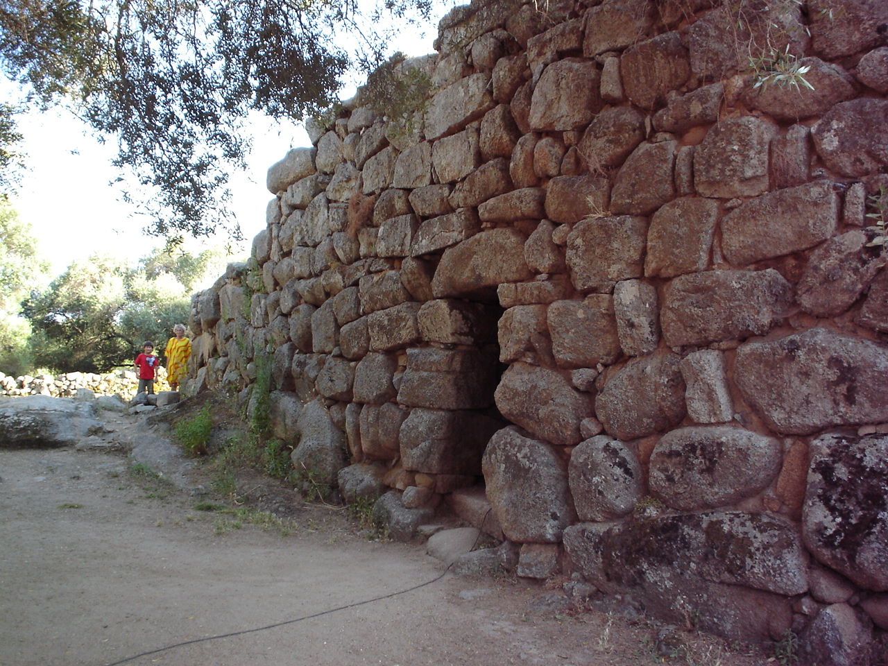 Thorkild C. Bøg-Hansen, Denmark